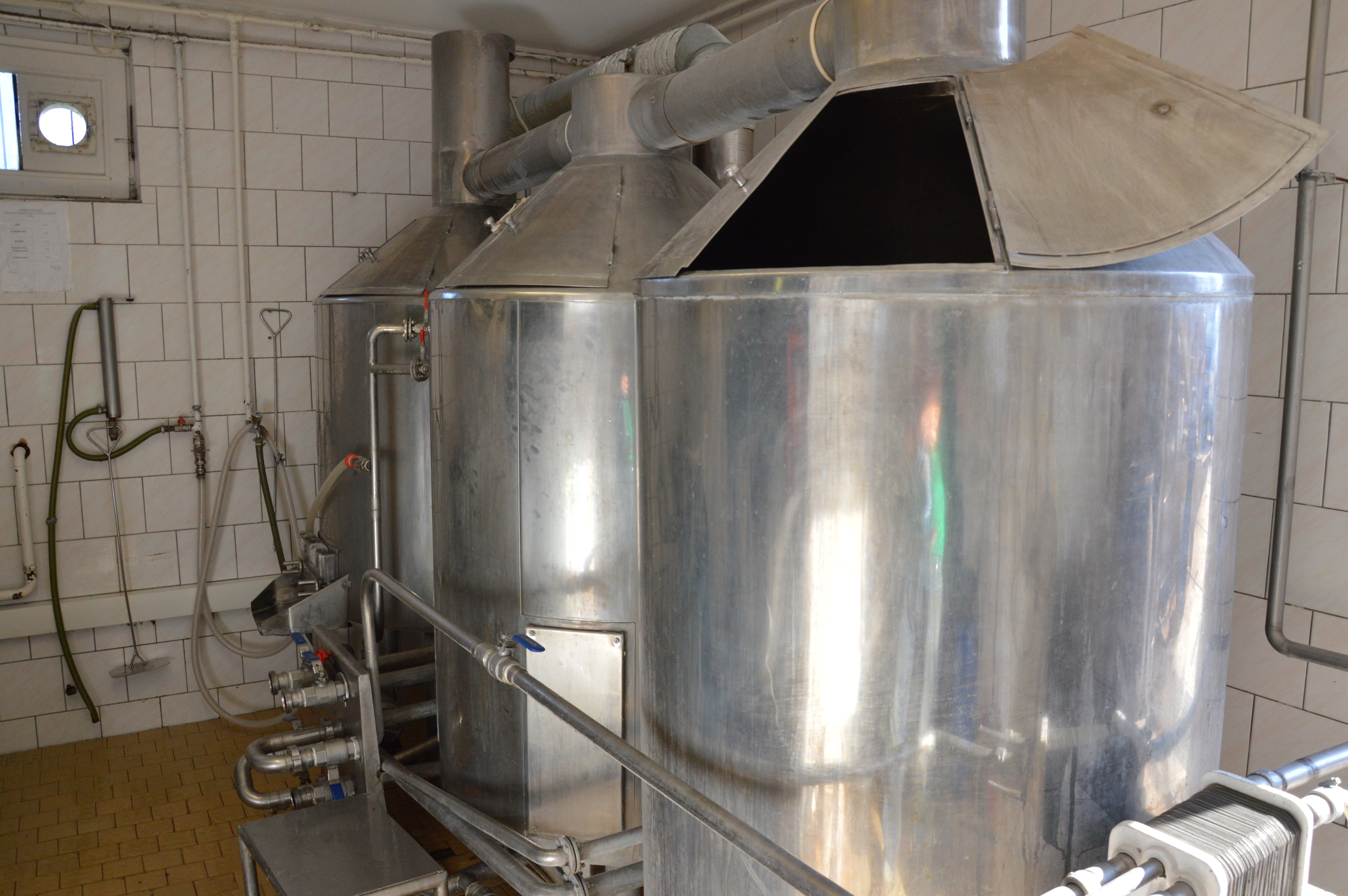 The brewing vats at the Fót Handcraft Microbrewery on Somlyó-hegy in Fót, Hungary.